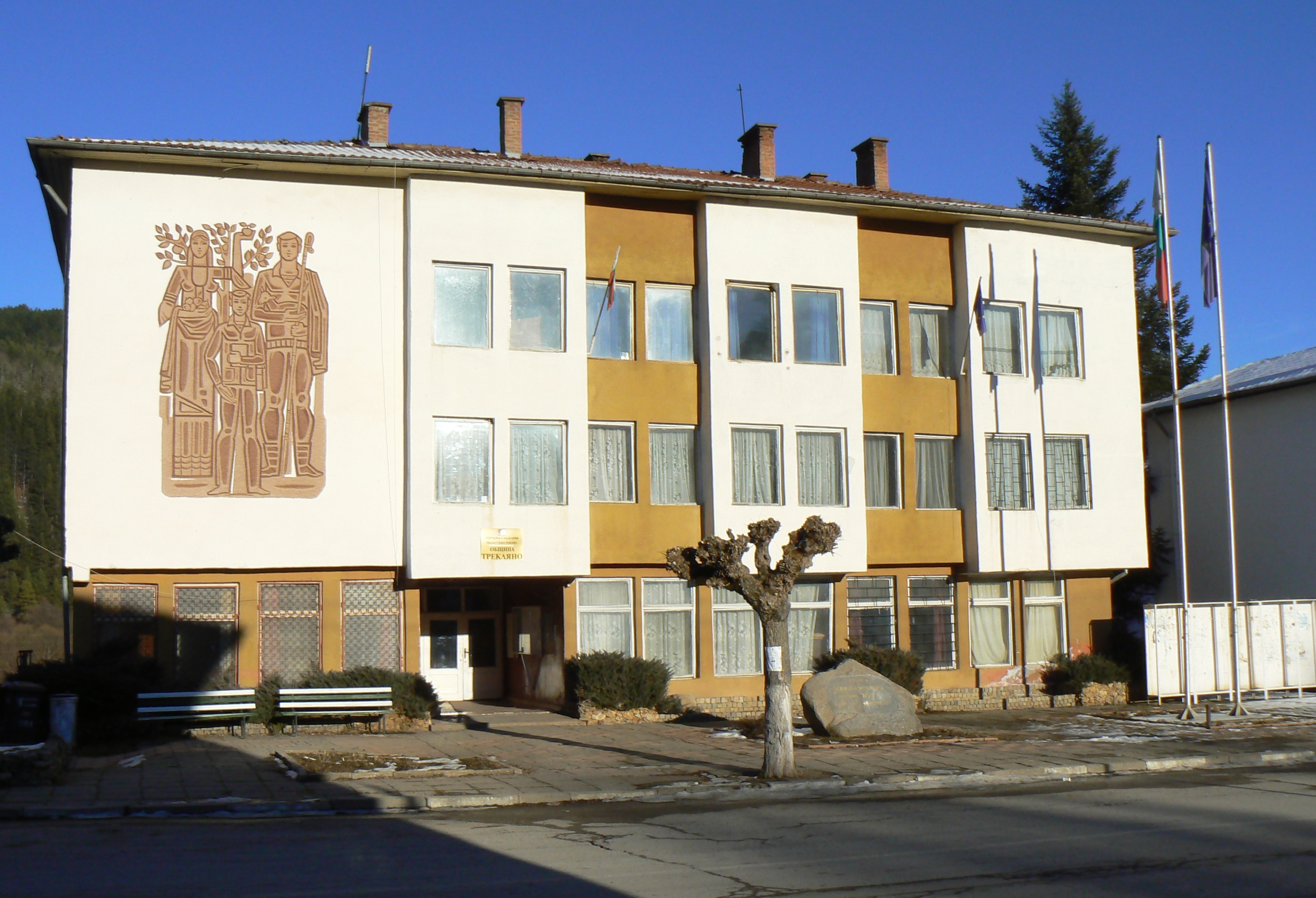 The building of Treklyano Municipality, Bulgaria